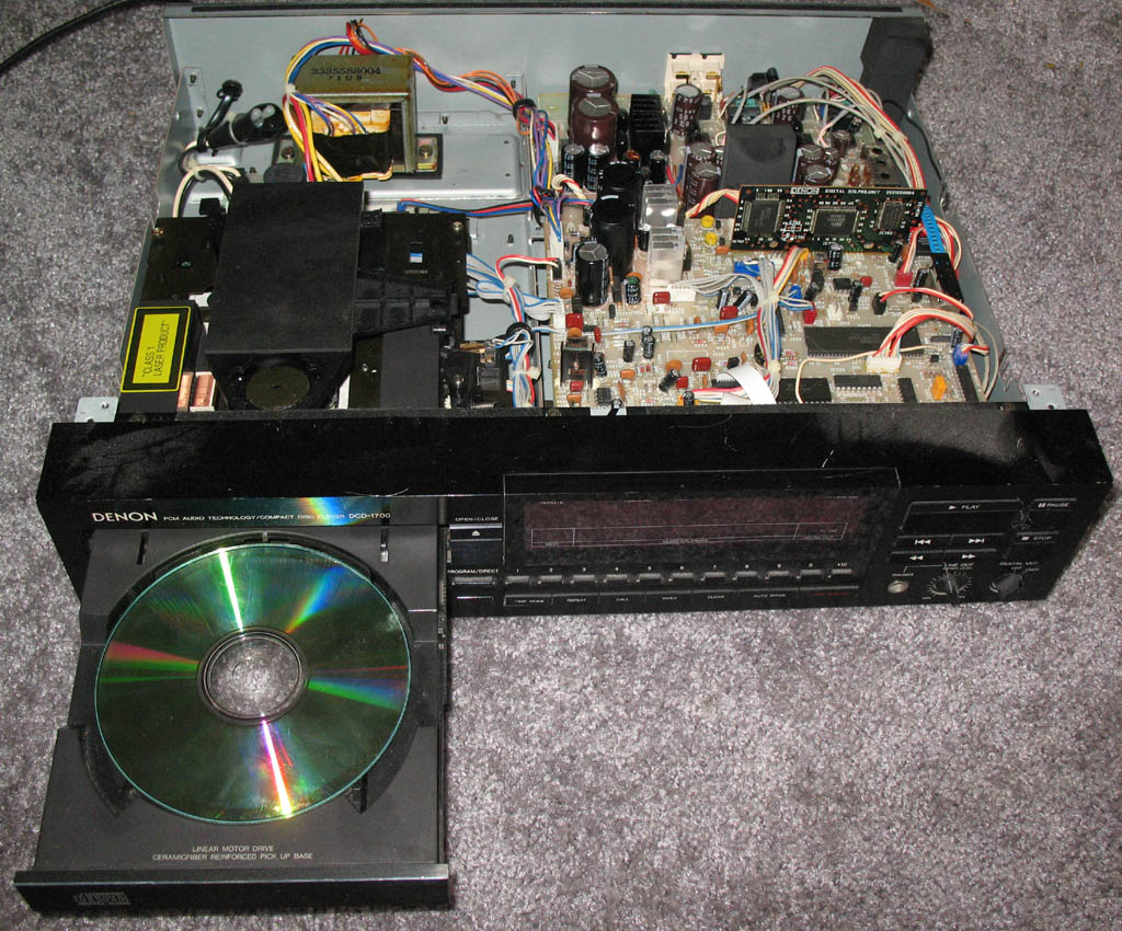 An early Denon DCD-1700 CD player made in the 1980's. This particular model was considered high-end for its time.